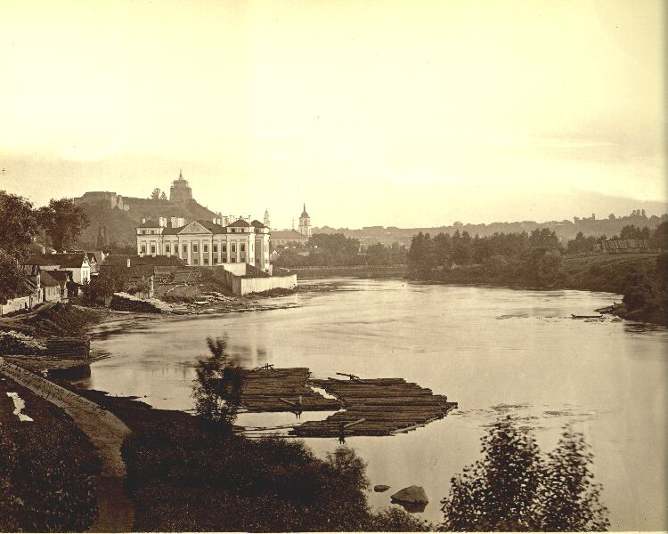 Neris River with Slusko Palace. Above it - Gediminas Tower.